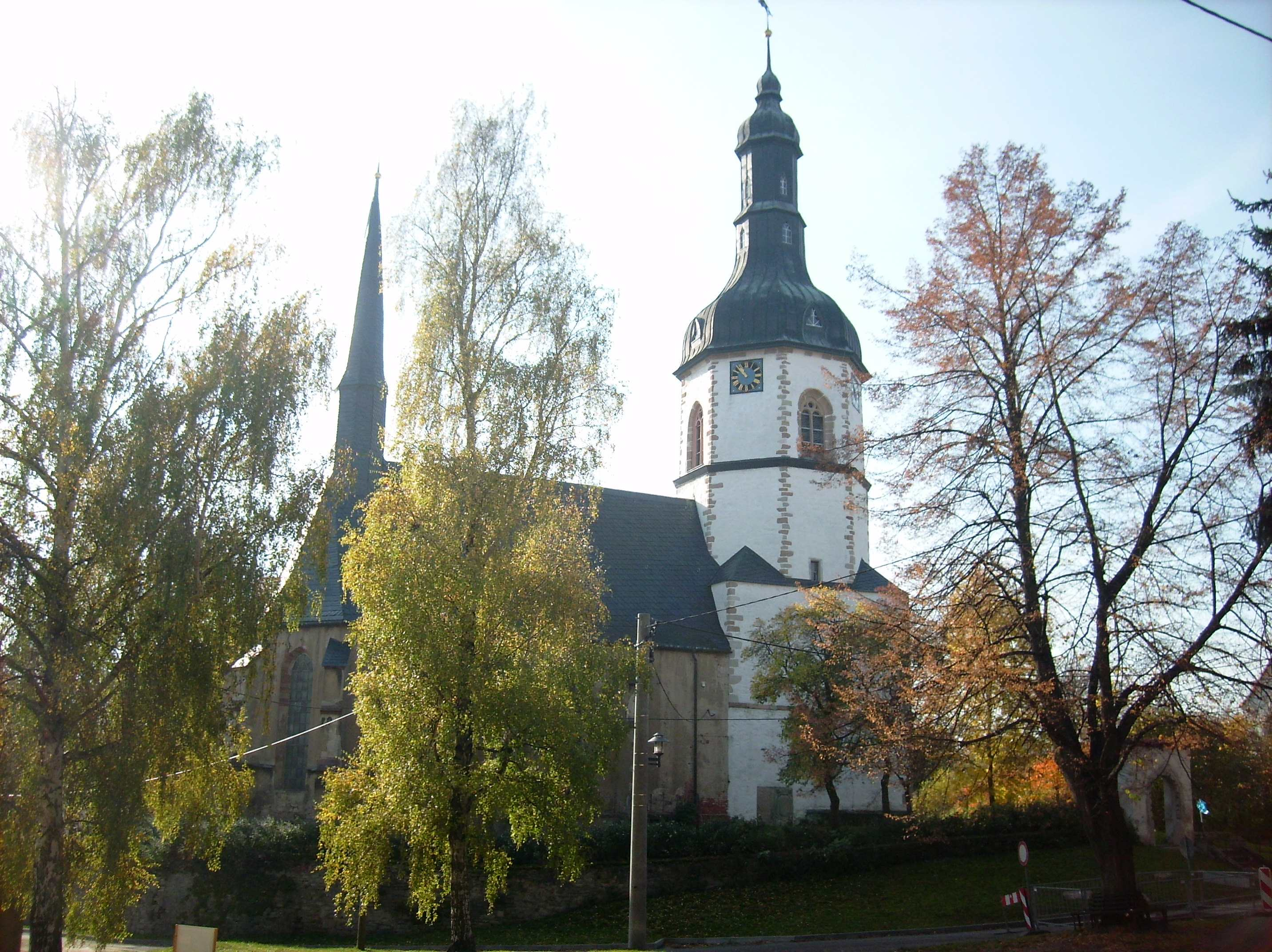 Monstab church (district of Altenburger Land, Thuringia)